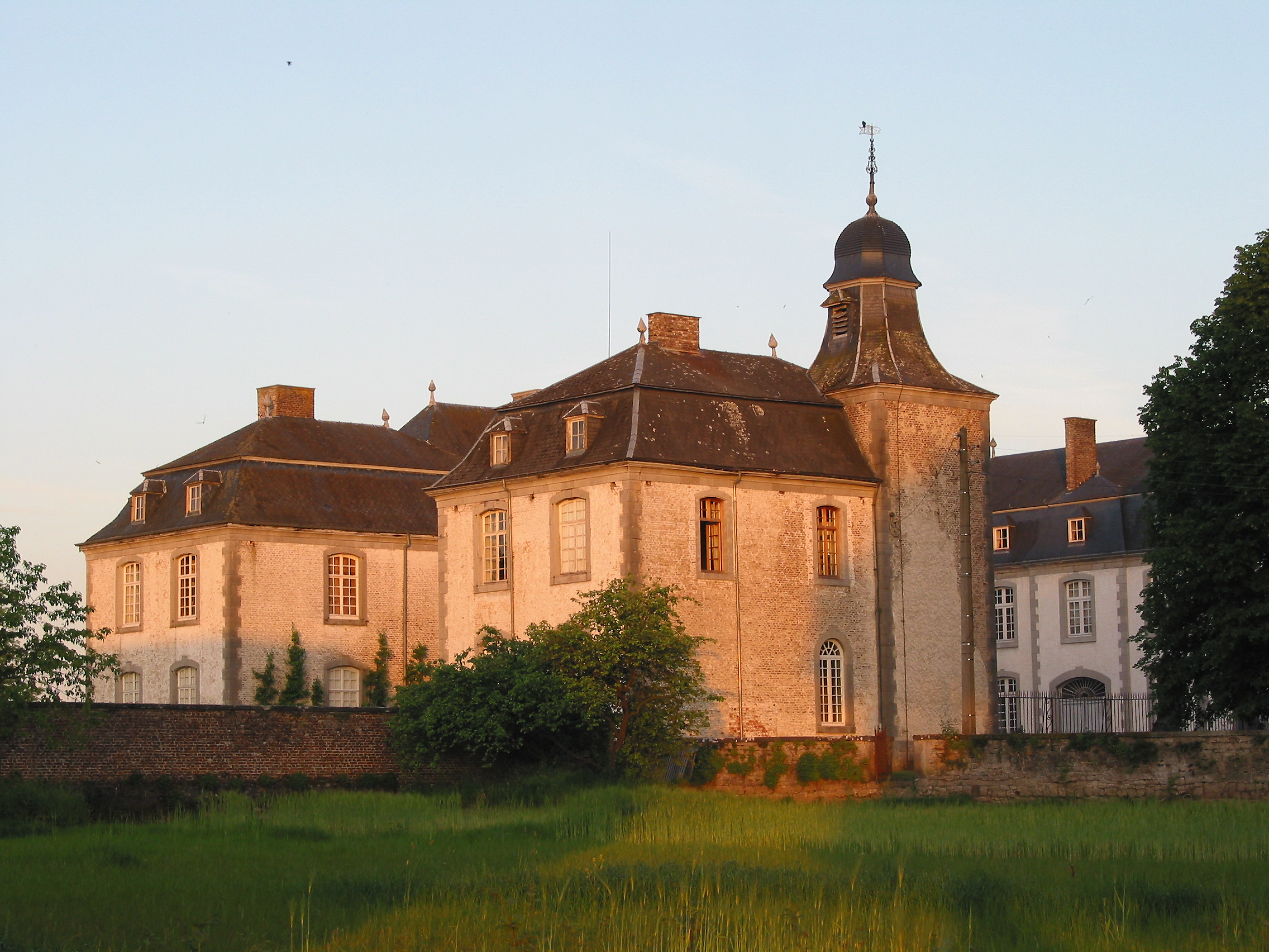 Deulin (Fronville, Belgium): "De Harlez"'s castle (18th century).